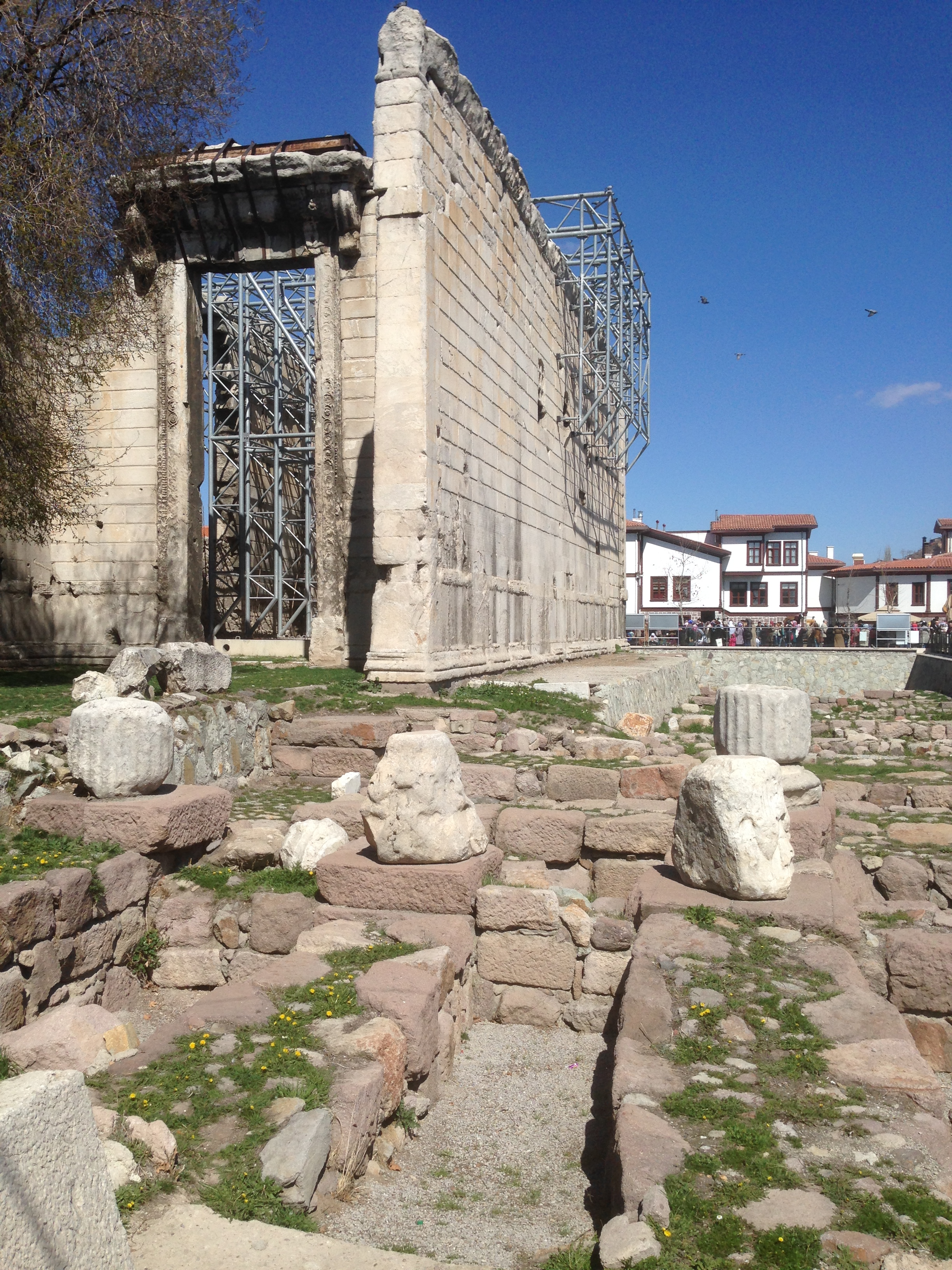 Temple of Roma and Augustus (Ankara)